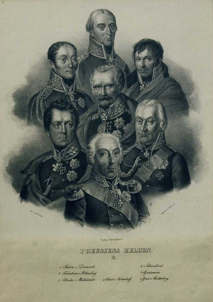 Prussia's Heroes II. By Wilhelm Devrient, Berlin (ca. 1835). Lithograph, 53 x 37 cm. Prussia Museum of North Rhine-Westphalia, Inventory No. G3/2008. 1 Bülow von Dennewitz 2 Tauentzien von Wittenberg 3 Blücher von Wahlstatt 4 Scharnhorst 5 Gneisenau 6 York von Wartenburg 7 Kleist von Nollendorff (After Prussia's collapse in 1806, 141 Prussian generals were dismissed in the framework of the army reform -- but not Tauentzien and Blücher.)